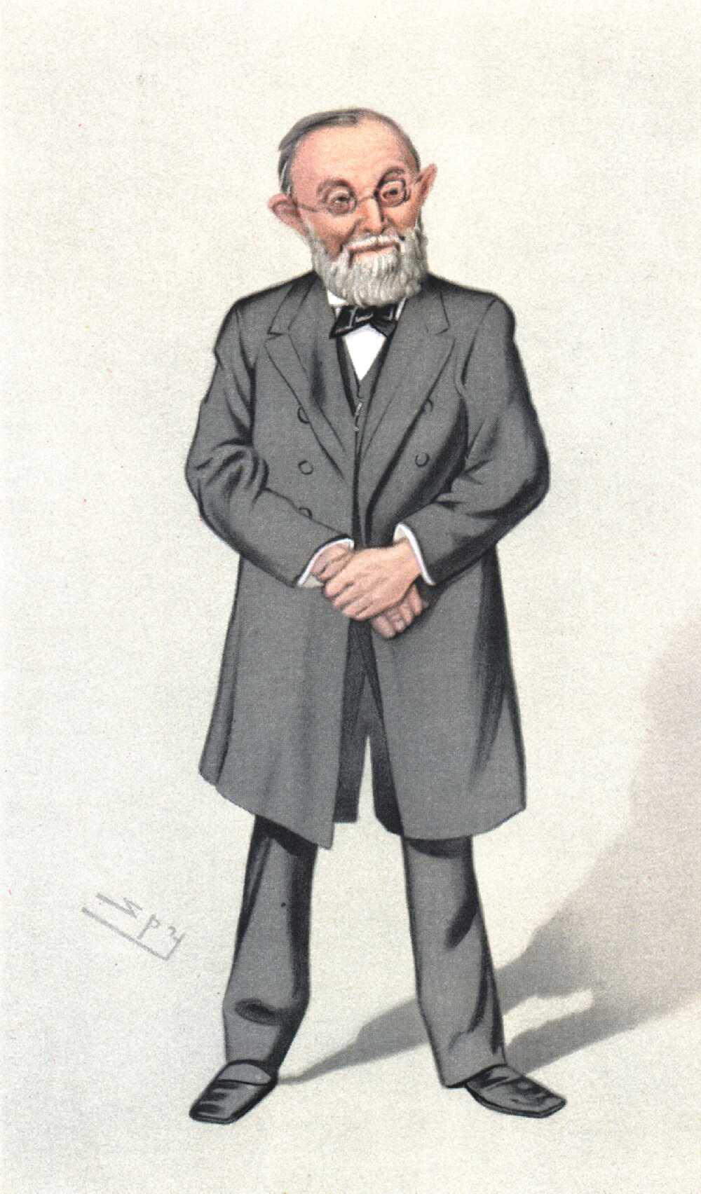 Caricature of Rudolf Virchow. Caption read "Cellular Pathology".